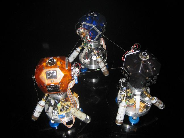 SPHERES, tethered formation flying satellites